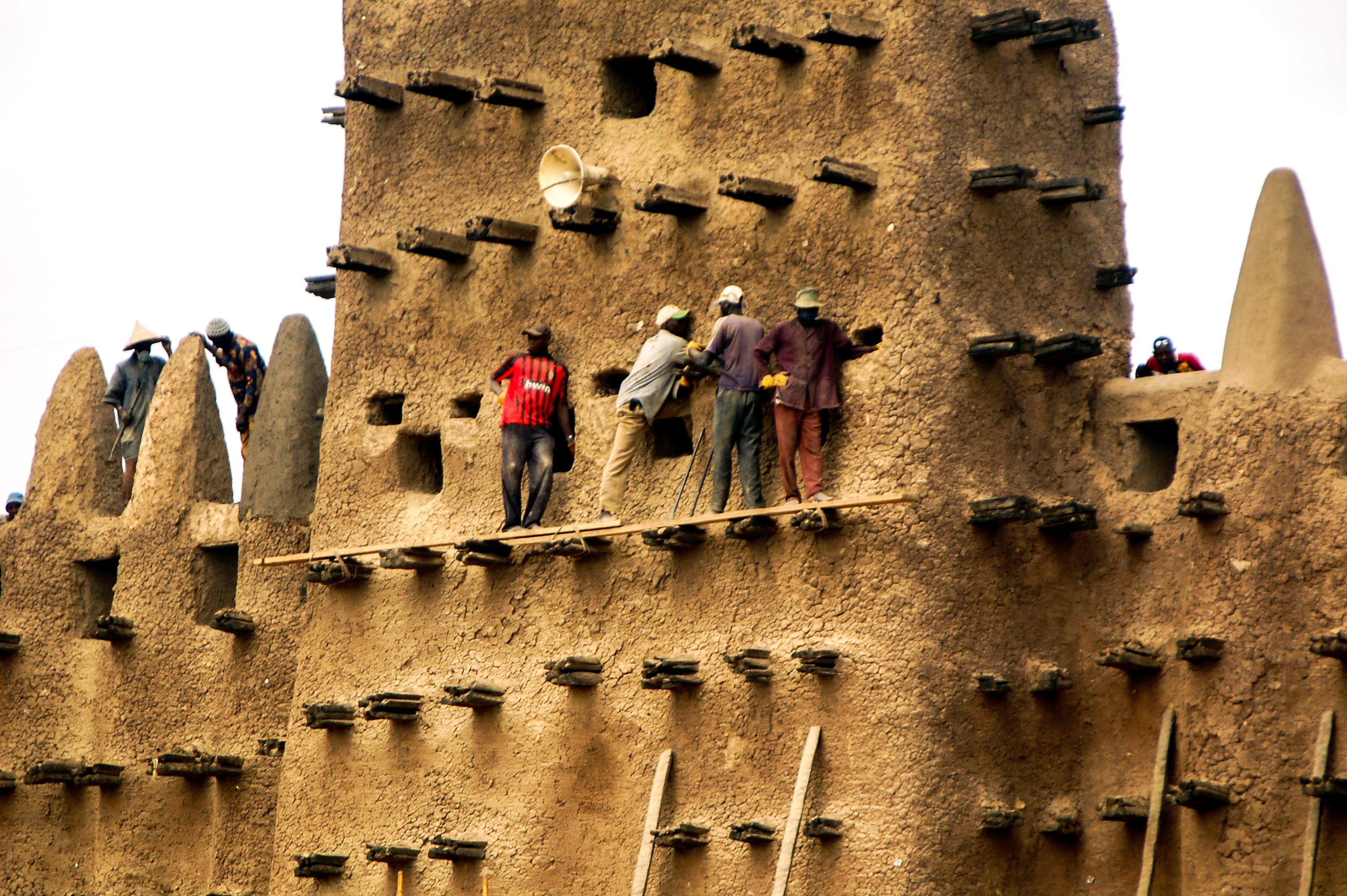 The facade of this building needs repairing every year. Mud bricks seem not to be the most long-lasting building material. This is the third construction of this building, completed in 1907. The first version is said to go back to the 13th century. For more photos of Mali, go to